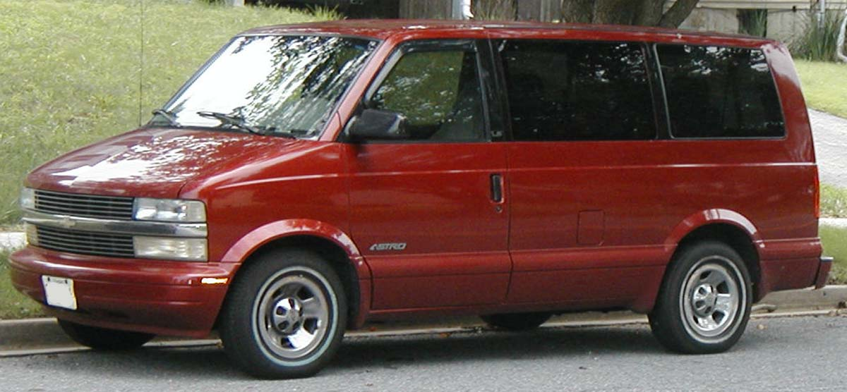 1995-2005 Chevrolet Astro photographed in USA.